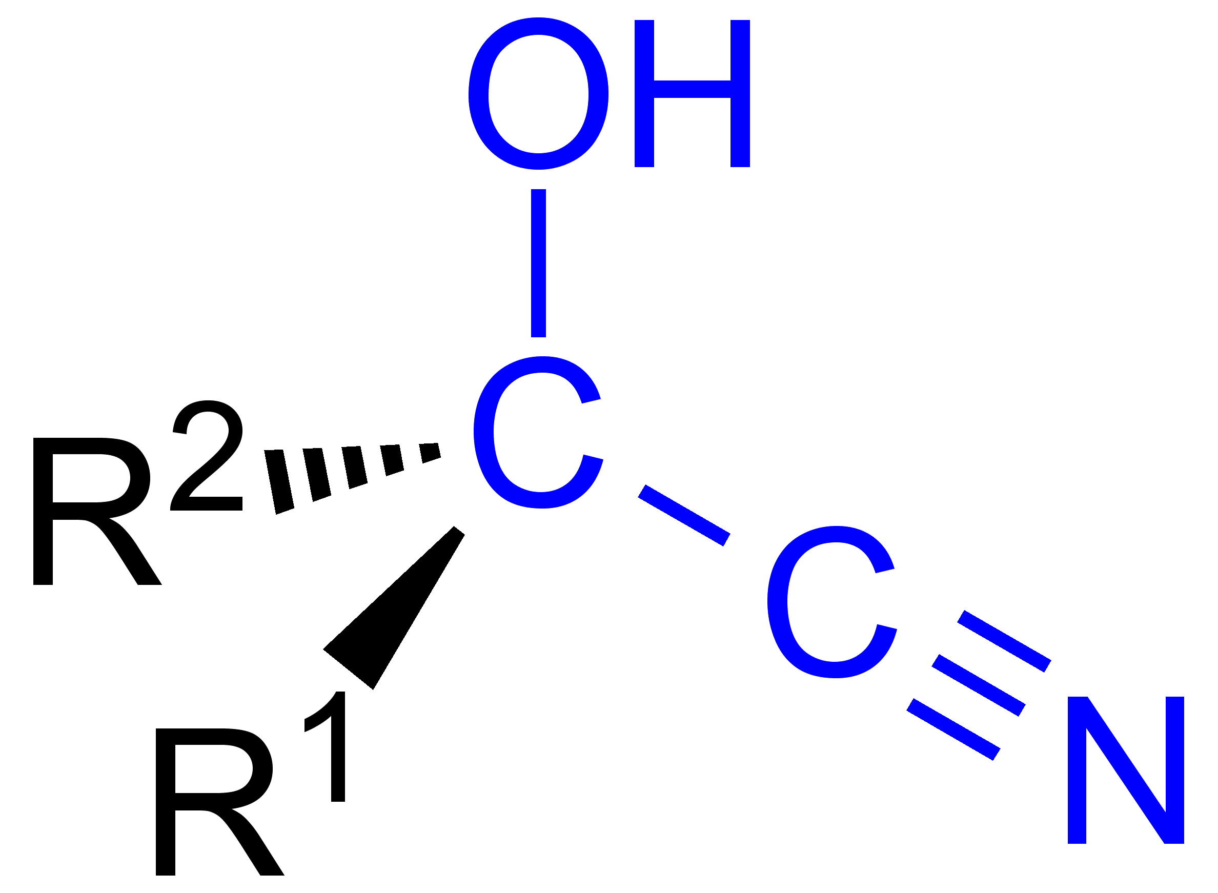 Cyanhydrine_General_Formulae Cyanhydrine; Cyanhydrine